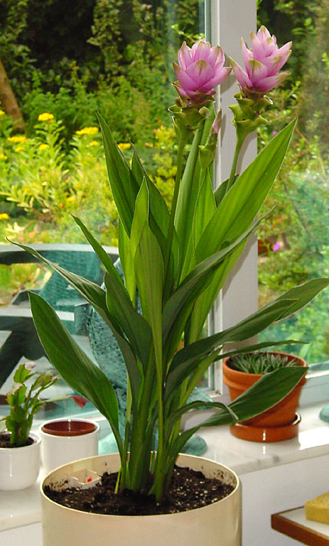 Siam Tulip or Summer Tulip Photos of the same plant